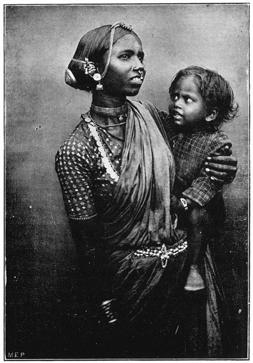 Komati Mother and Child, Madras Presidency, 1909